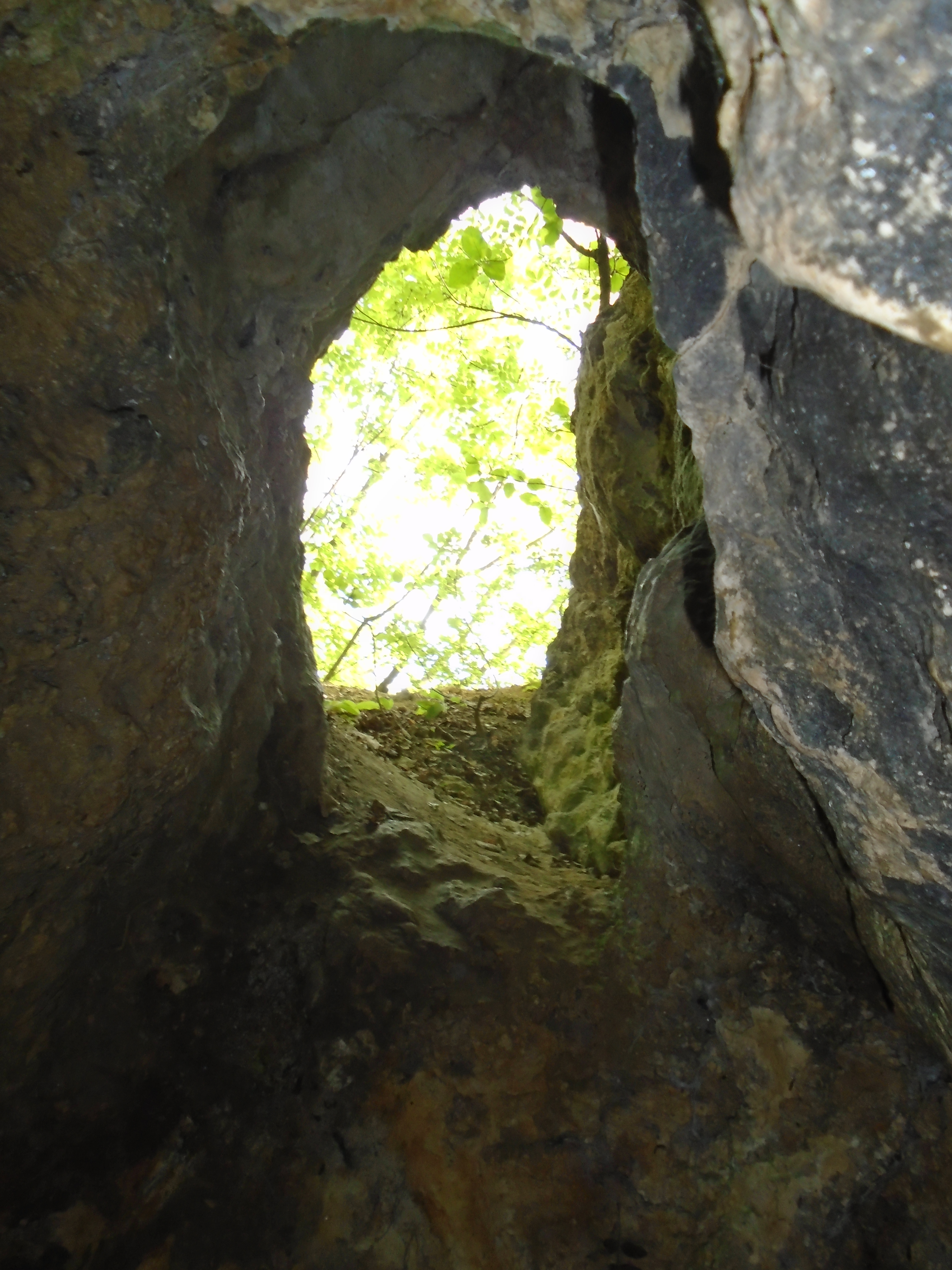 Entrance of Keleti quarry No 15 Cave.